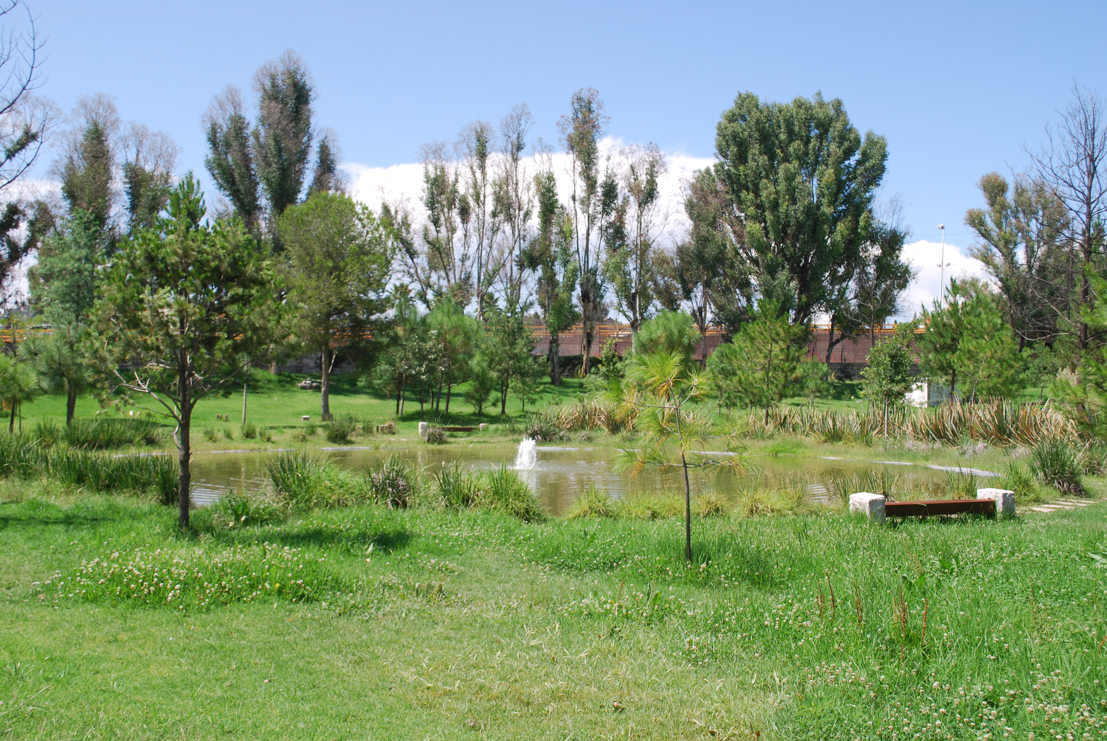 Storks in Parque Guadiana in Victoria de Durango, Mexico